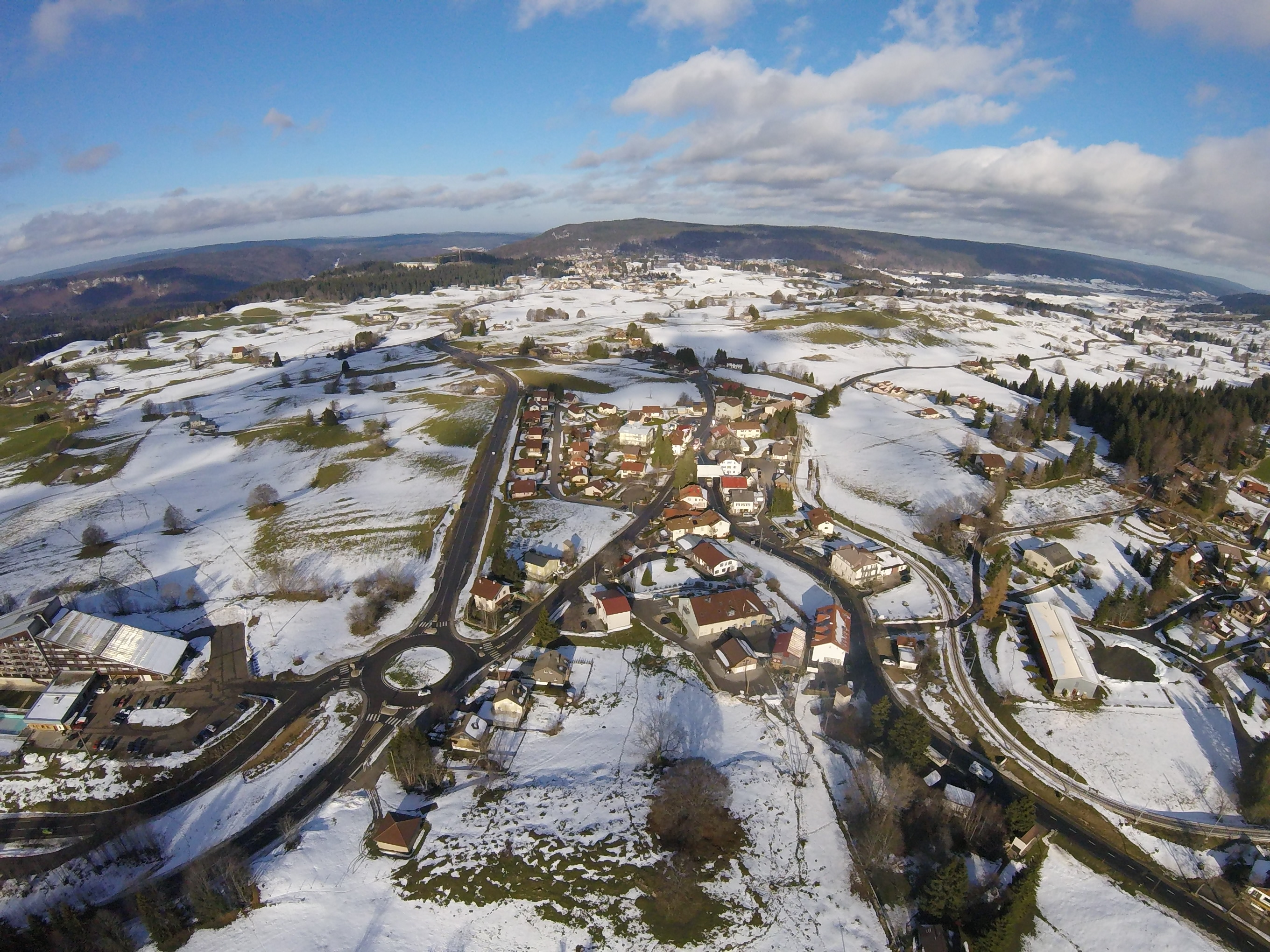 La Cure, a small village located five miles north of Geneva, Switzerland. Aerial view.